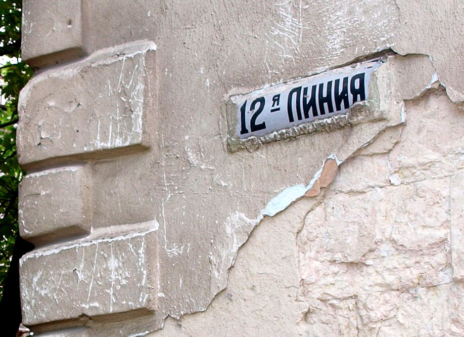 12th Line in Lugansk.